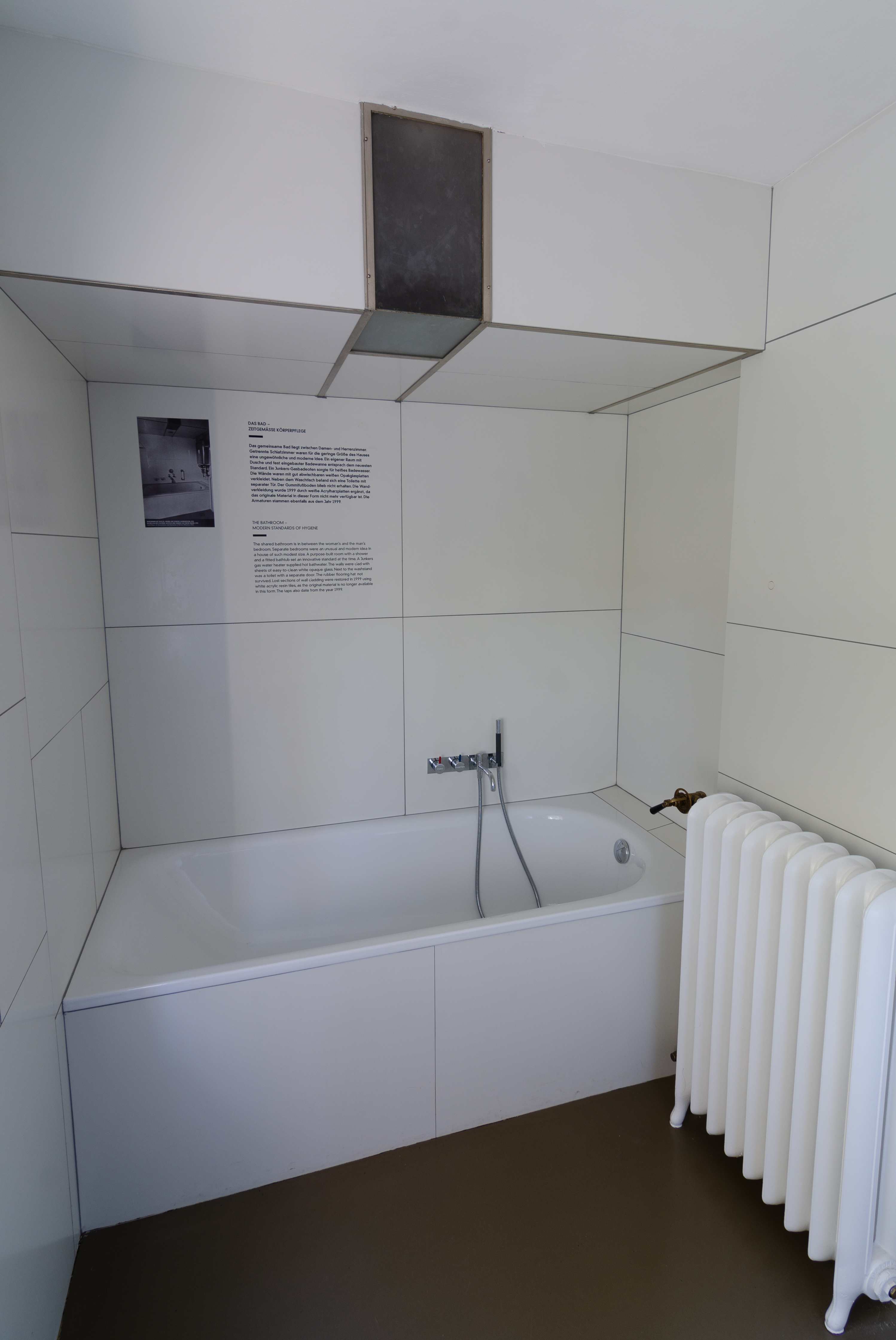 Weimar (Thuringia, Germany) – Haus am Horn – interior – bathroom – bathtub